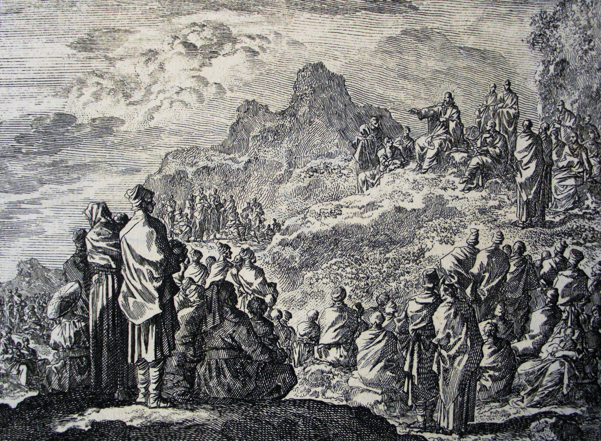 A an etching by Jan Luyken from the Phillip Medhurst Collection of Bible illustrations housed at Belgrave Hall, Leicester, England (The Kevin Victor Freestone Bequest). Photo by Philip De Vere.